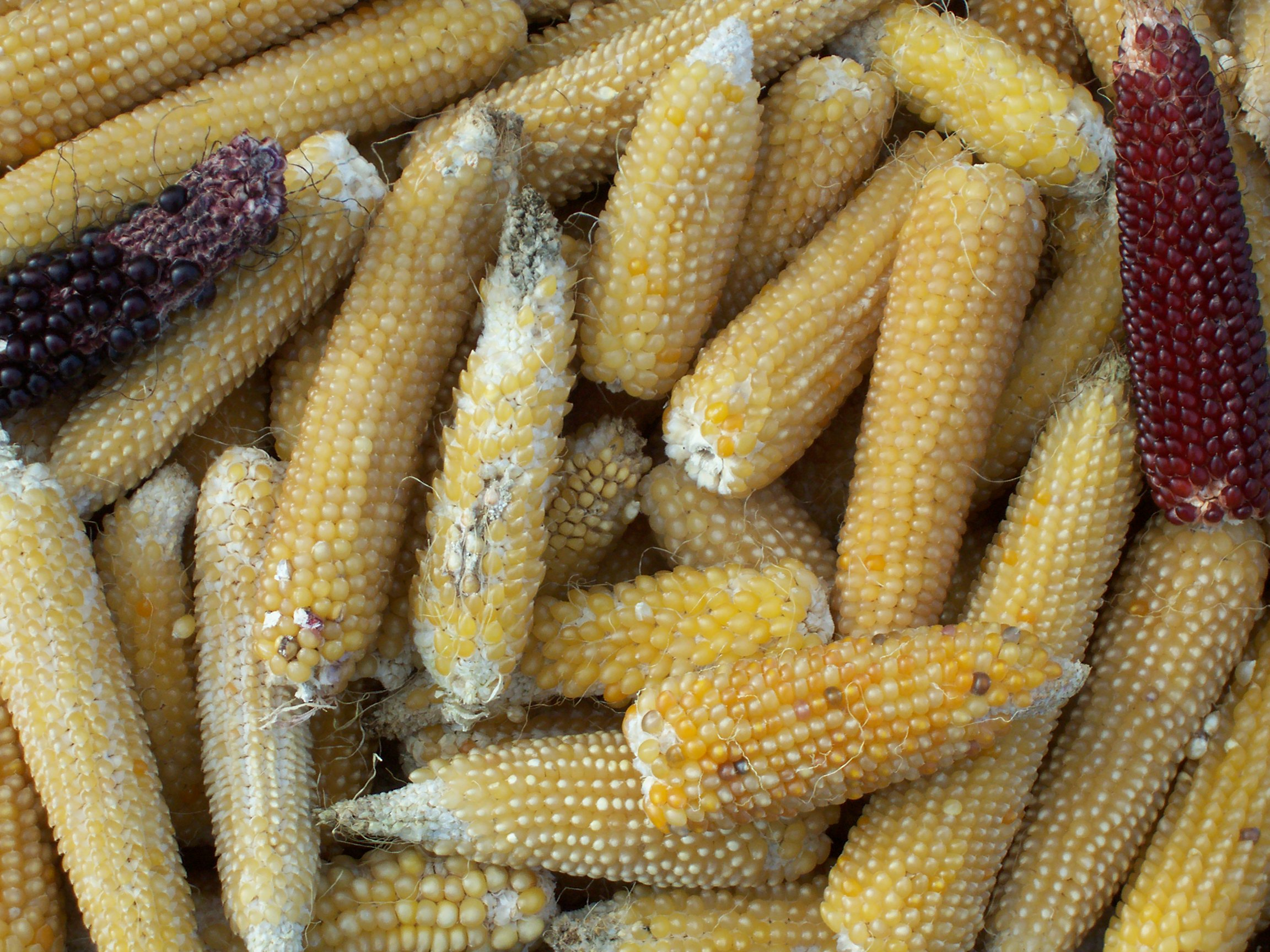 Popcorn cobs of several colors. These cobs grew from plants near Image:AlbinoPopcorn.jpg. I partially shelled one cob from this set, and it can be found at Image:PopcornPartiallyShelled2007.jpg.